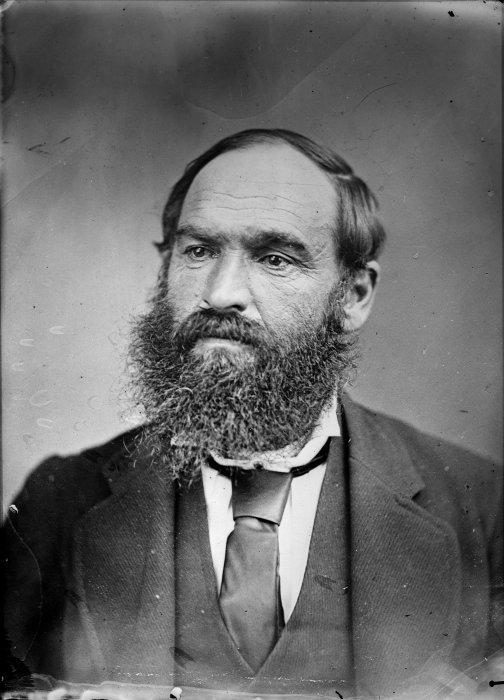 John Bryce 1833-1913